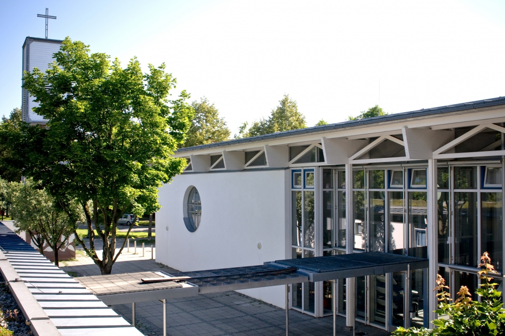 Hoffnungskirche Freimann